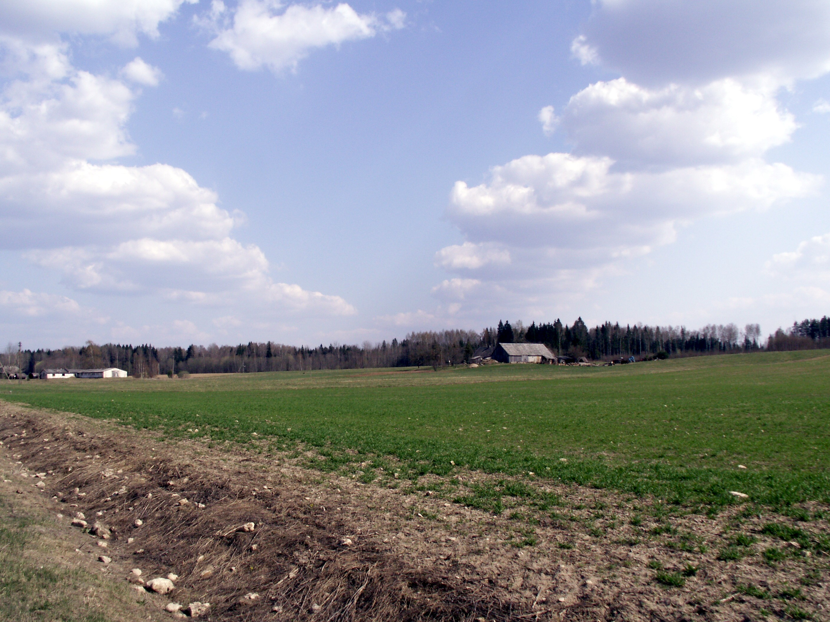 Tabokinė, Biržai district, Lithuania